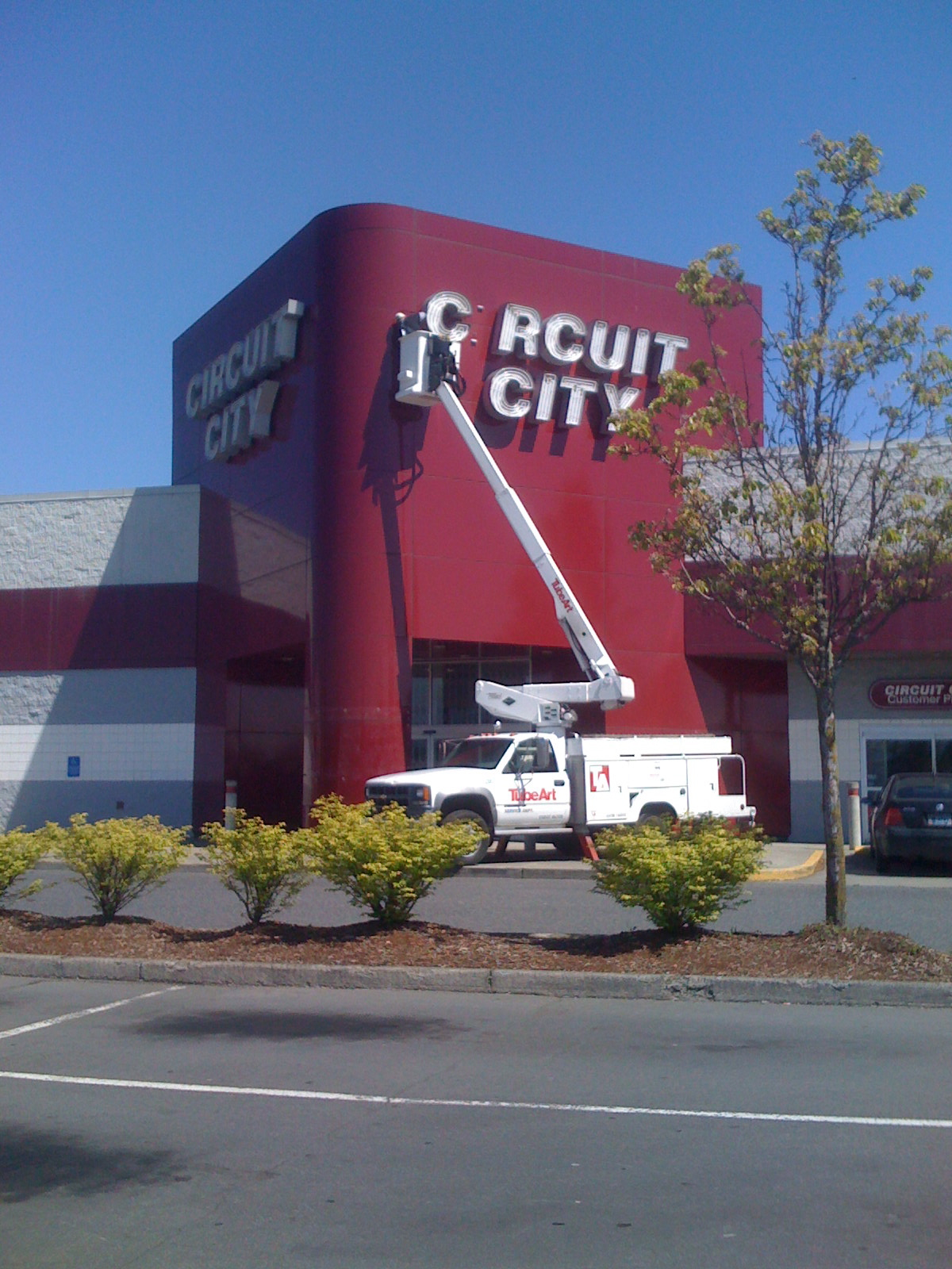 Circuit City Store in Portland, Oregon. Closed due to brankruptcy